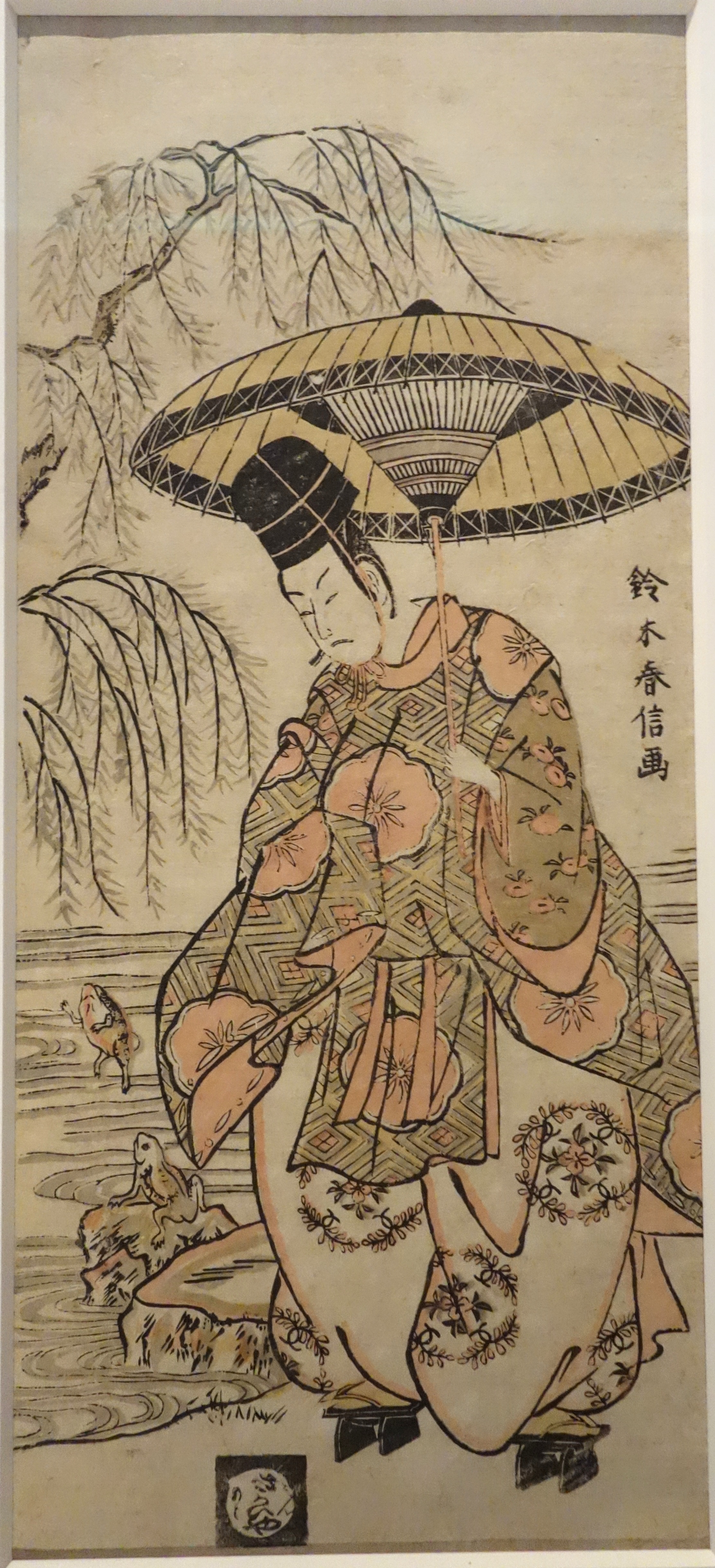 Hosoban 33 x 14.5 to 22 cm.. Exhibit in the Tokyo National Museum, Tokyo, Japan. This artwork is old enough so that it is in the public domain.